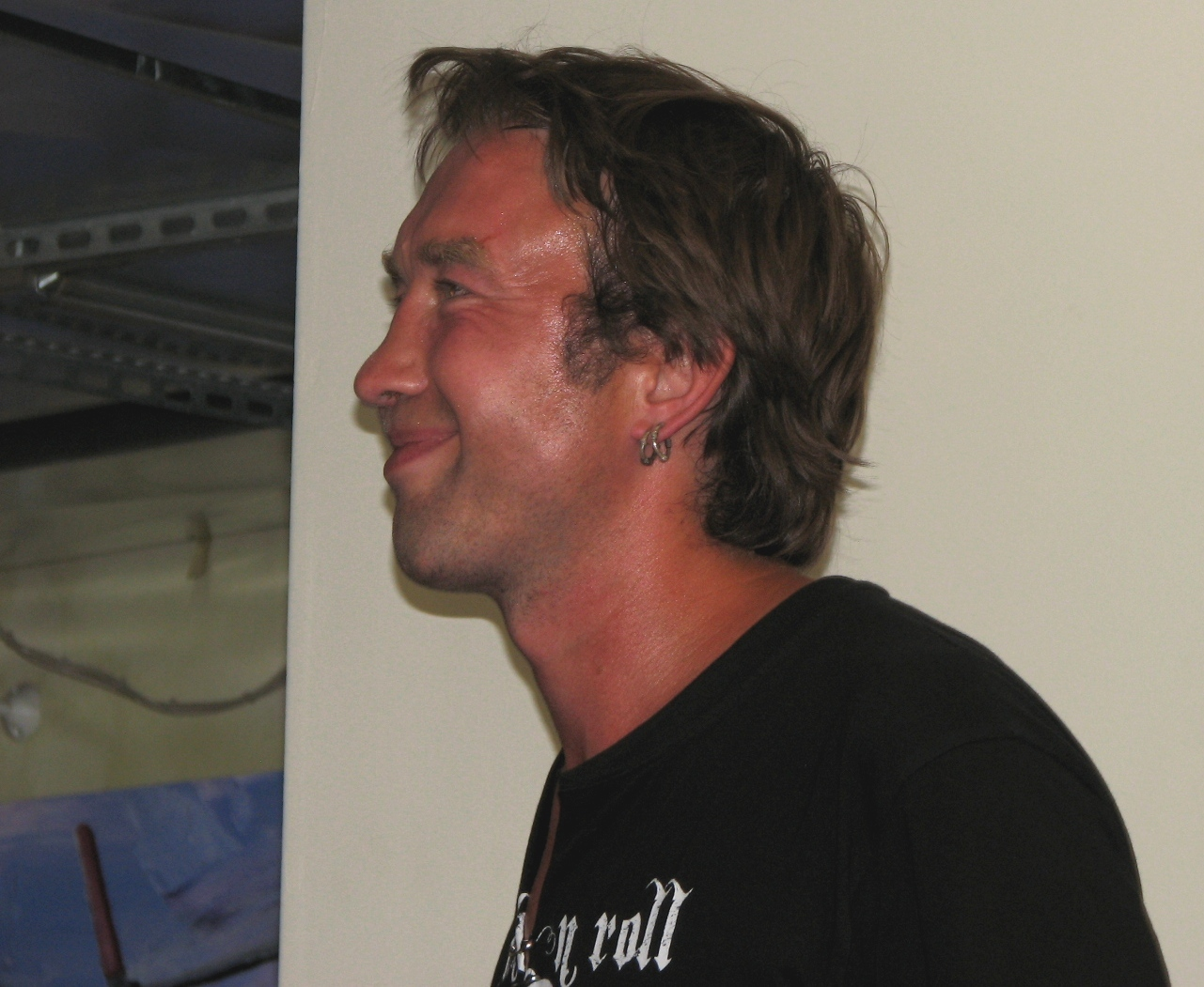 Freddy Grenzmann